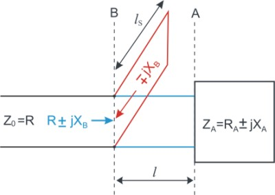 Impedance matching of a stub